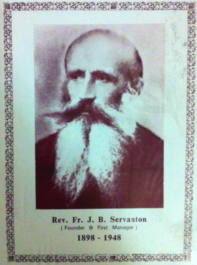 Founder And first manager